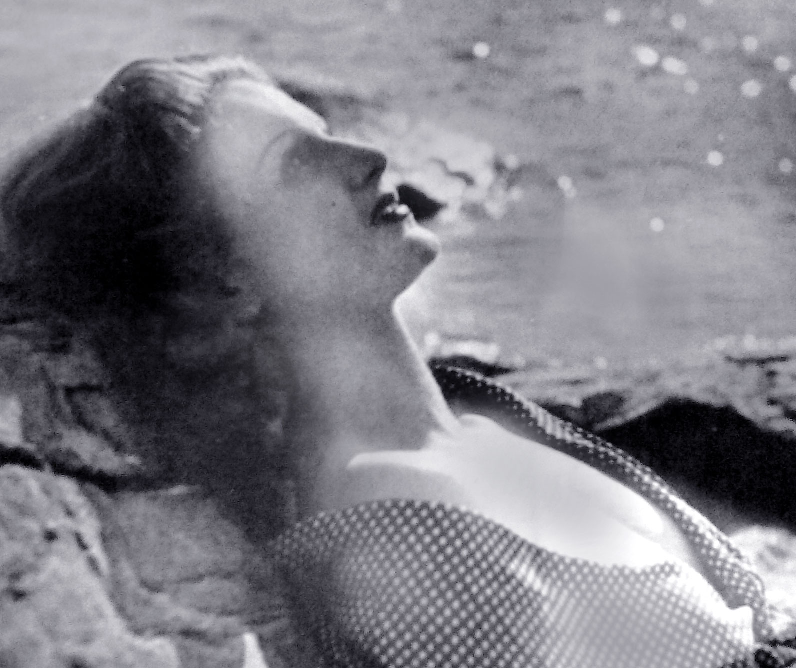 Una immagine dell'attrice Elena Altieri nel 1940